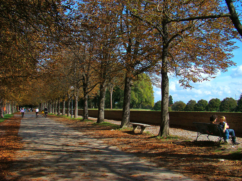 Lucca, Tuscany, Italy. The Passeggiata delle Mura, walk over the fortified walls.